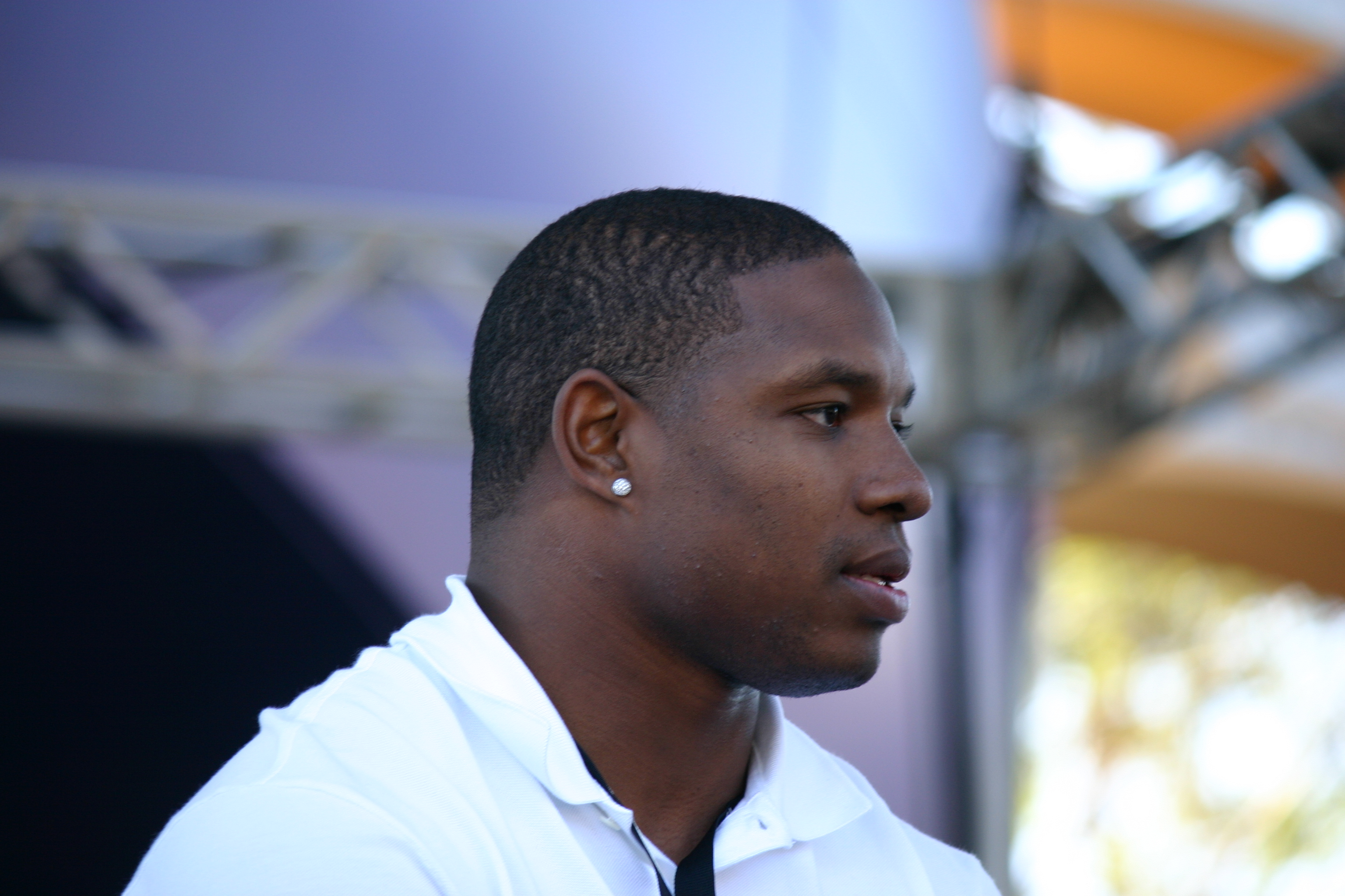 Maurice Jones-Drew answering guest questions at ESPN The Weekend on February 26, 2010